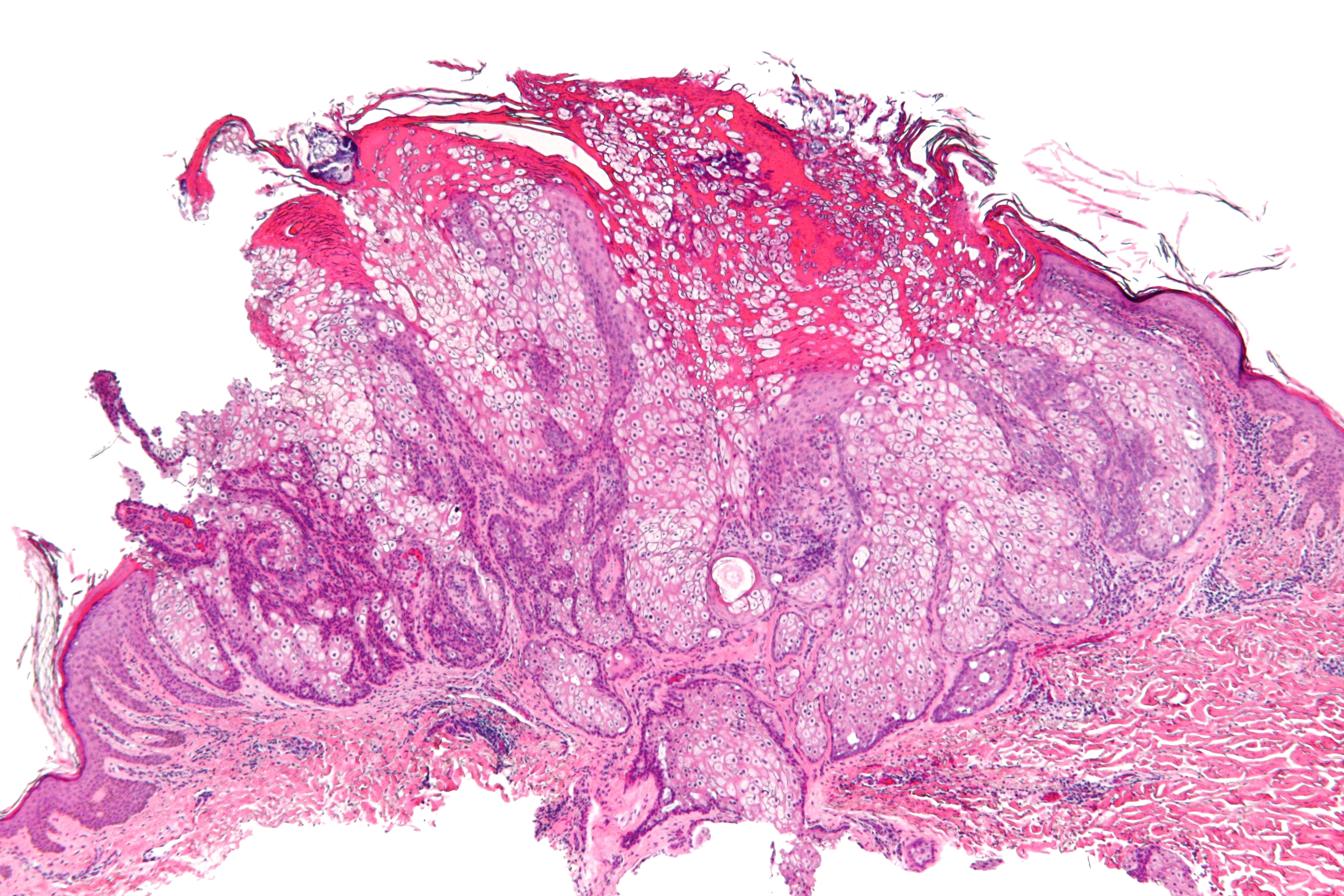 Low magnification micrograph of a sebaceous adenoma. H&E stain. Sebaceous adenoma is in a spectrum of sebaceous lesions that includes: Sebaceous hyperplasia. Sebaceous adenoma. Sebaceoma (sebaceous epithelioma). Sebaceous carcinoma. Sebaceous adenomas may be seen in the context of Muir-Torre syndrome, a variant of Lynch syndrome, which is association with mutations in MSH2 and MLH1.[1] Related images Low mag. Intermed. mag. High mag. Very high mag. References ↑ Online 'Mendelian Inheritance in Man' (OMIM) 158320